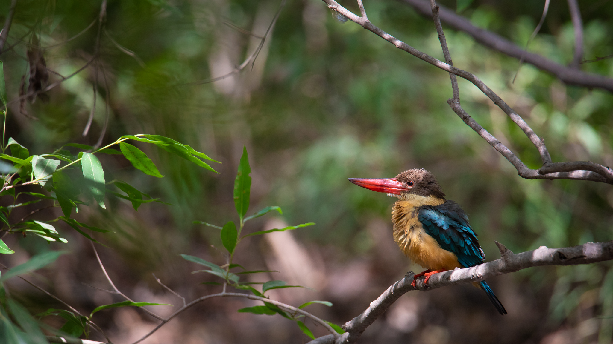 Individual at Bhakola in Ranthambhore National Park